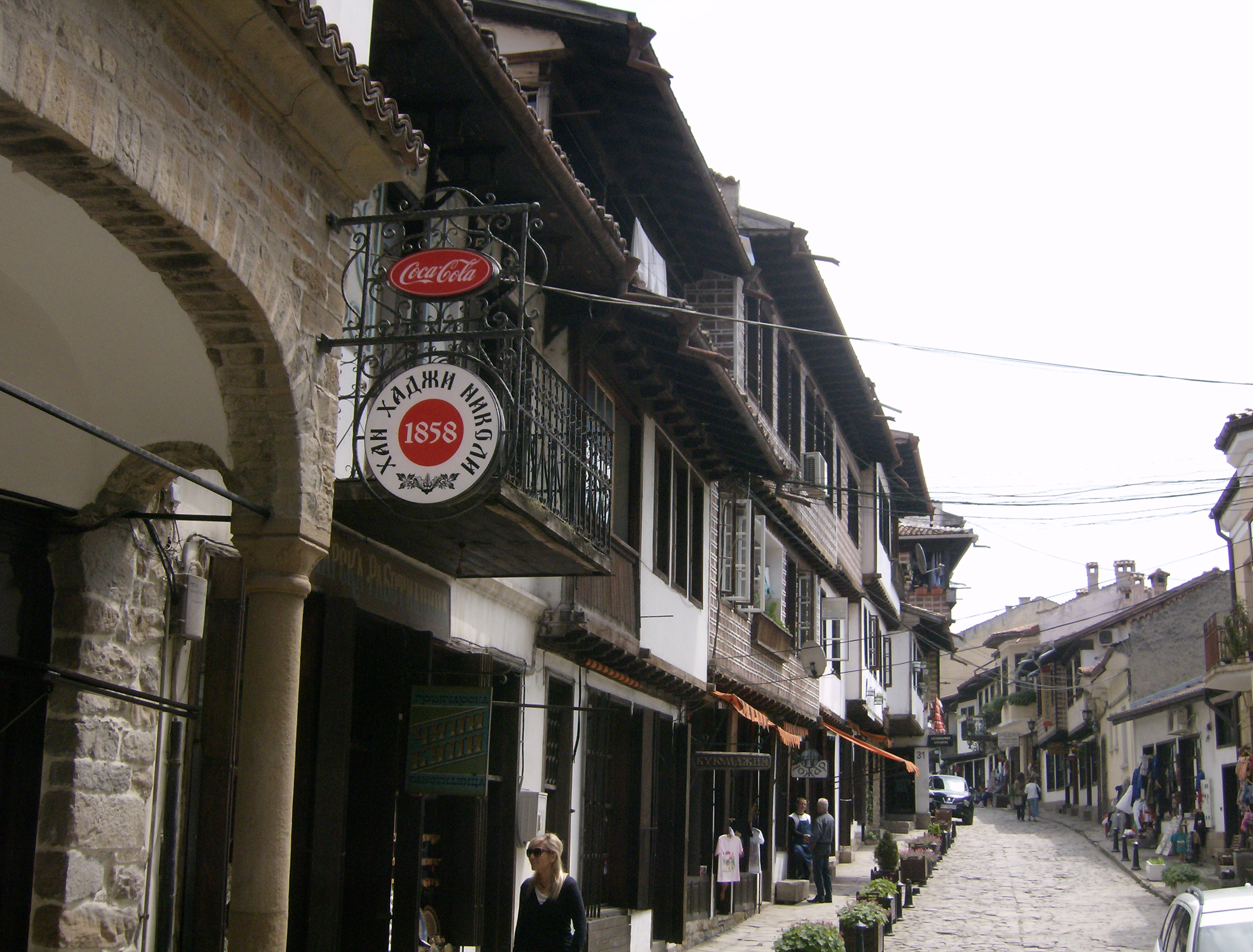 Samovodska Charshia